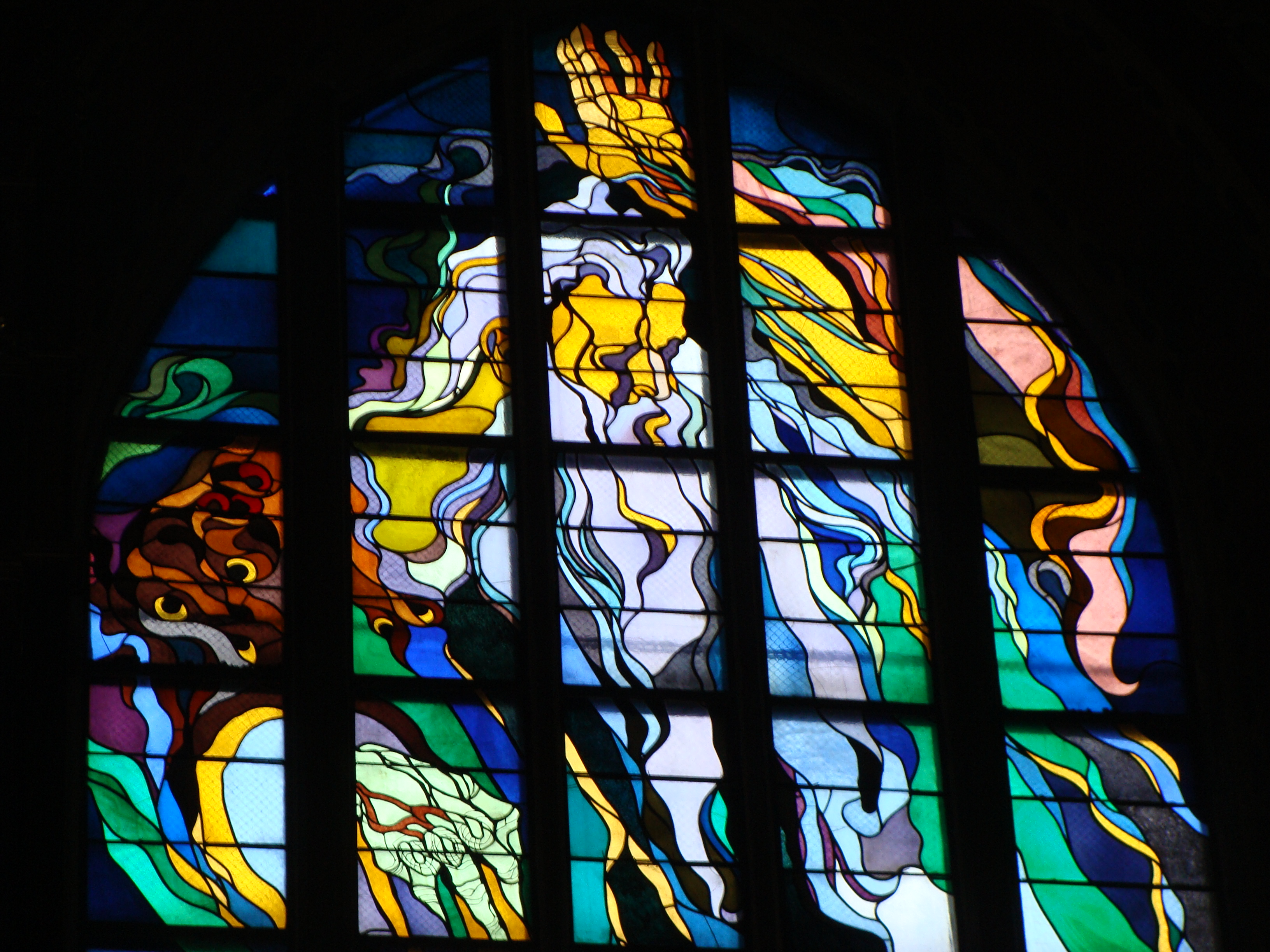 Stained glass window made by Stanisław Wyspiański (1869–1907) in church of St. Francis in Kraków (Poland).